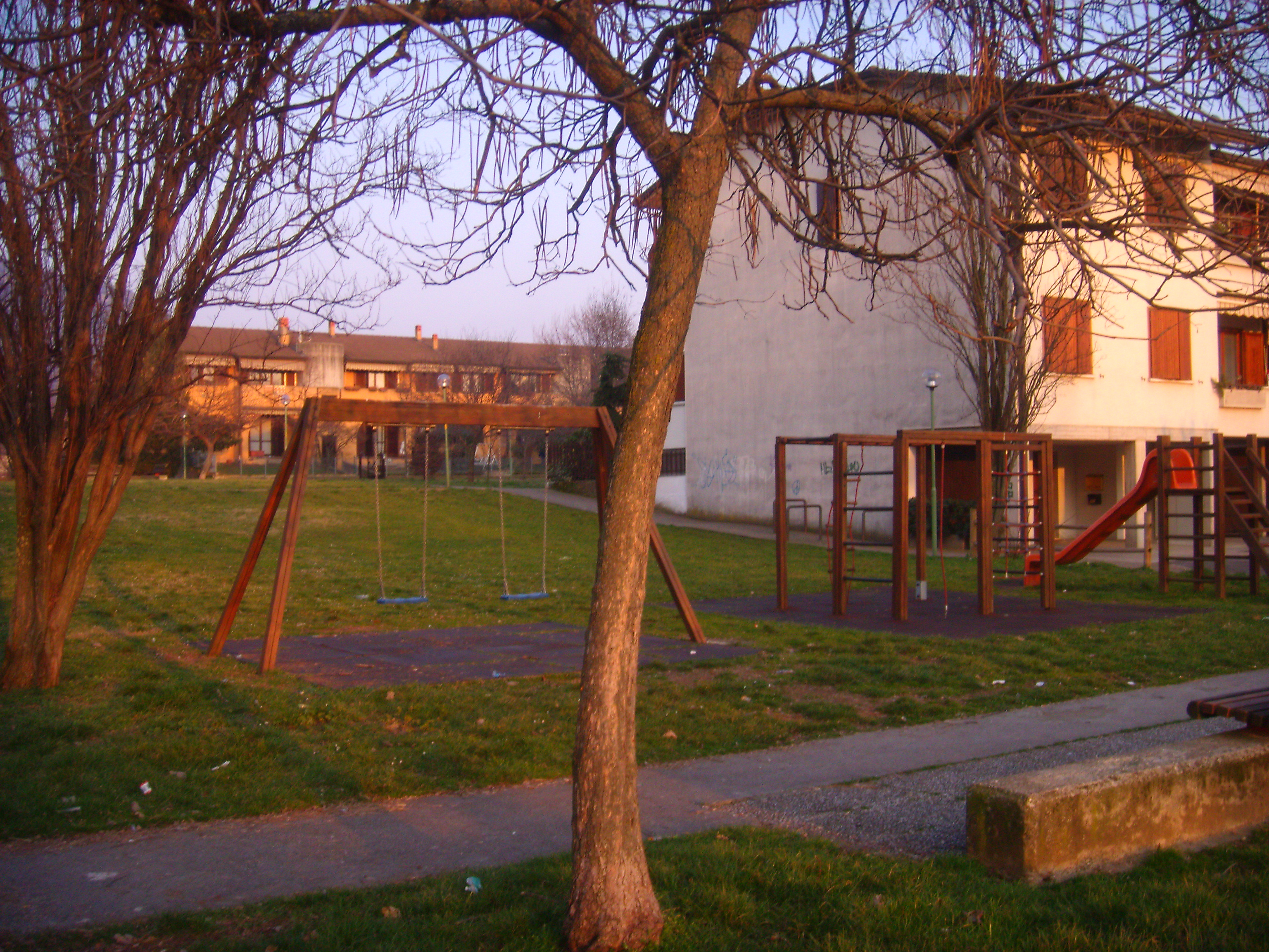 Typical houses in the San Polo neighbourhood (Brescia, Italy). Photograph taken from the little public gardens between the adjacent streets via Andrea del Verrocchio and via Antonio Allegri.